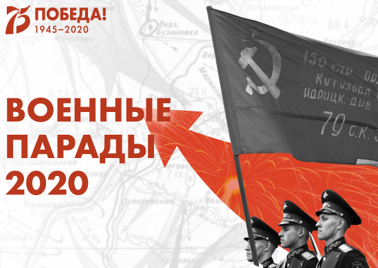 На сайте Минобороны России открыт мультимедийный раздел о парадах, проводимых в городах России в ознаменование 75-летия Великой Победы